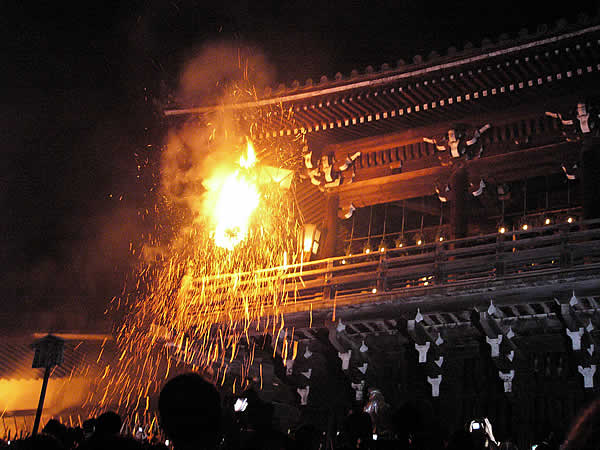 Todaiji-shunie, known as Omizutori.